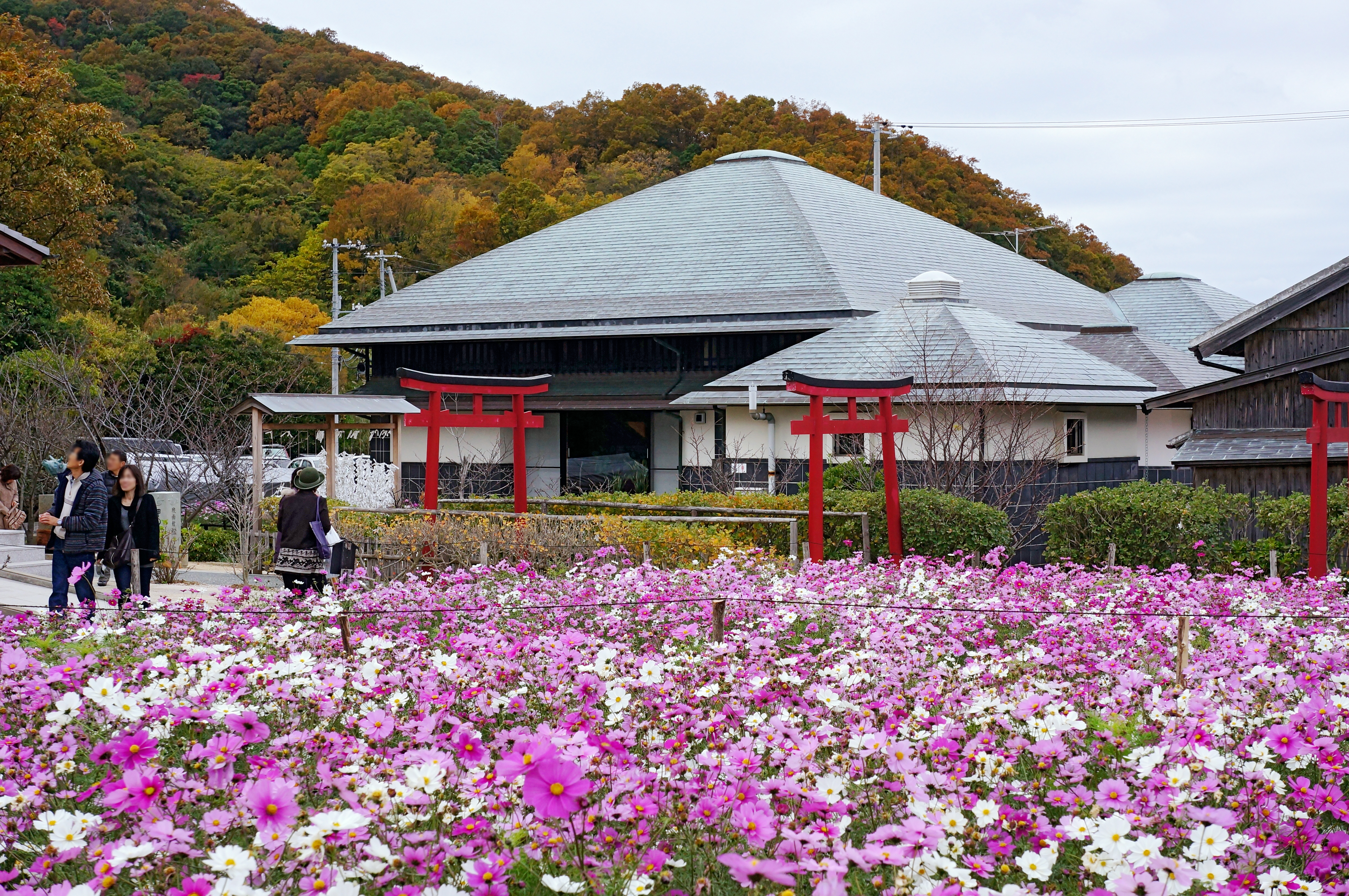 Sakae Tsuboi Memorial Museum on the amusement park of "Twenty-four eyes" in Shodoshima Island, Kagawa Prefecture, Japan)